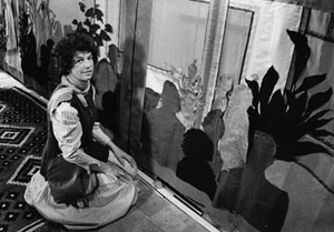 Katharina von Arx